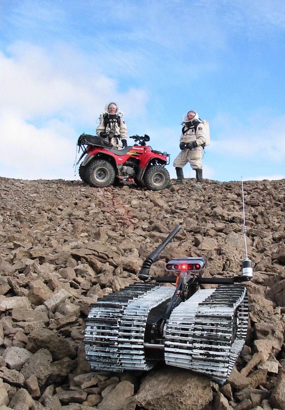 The DARPA - US Army telerobot "Solon" exploring Devo Rock canyon on Devon Island on July 26, 2001.